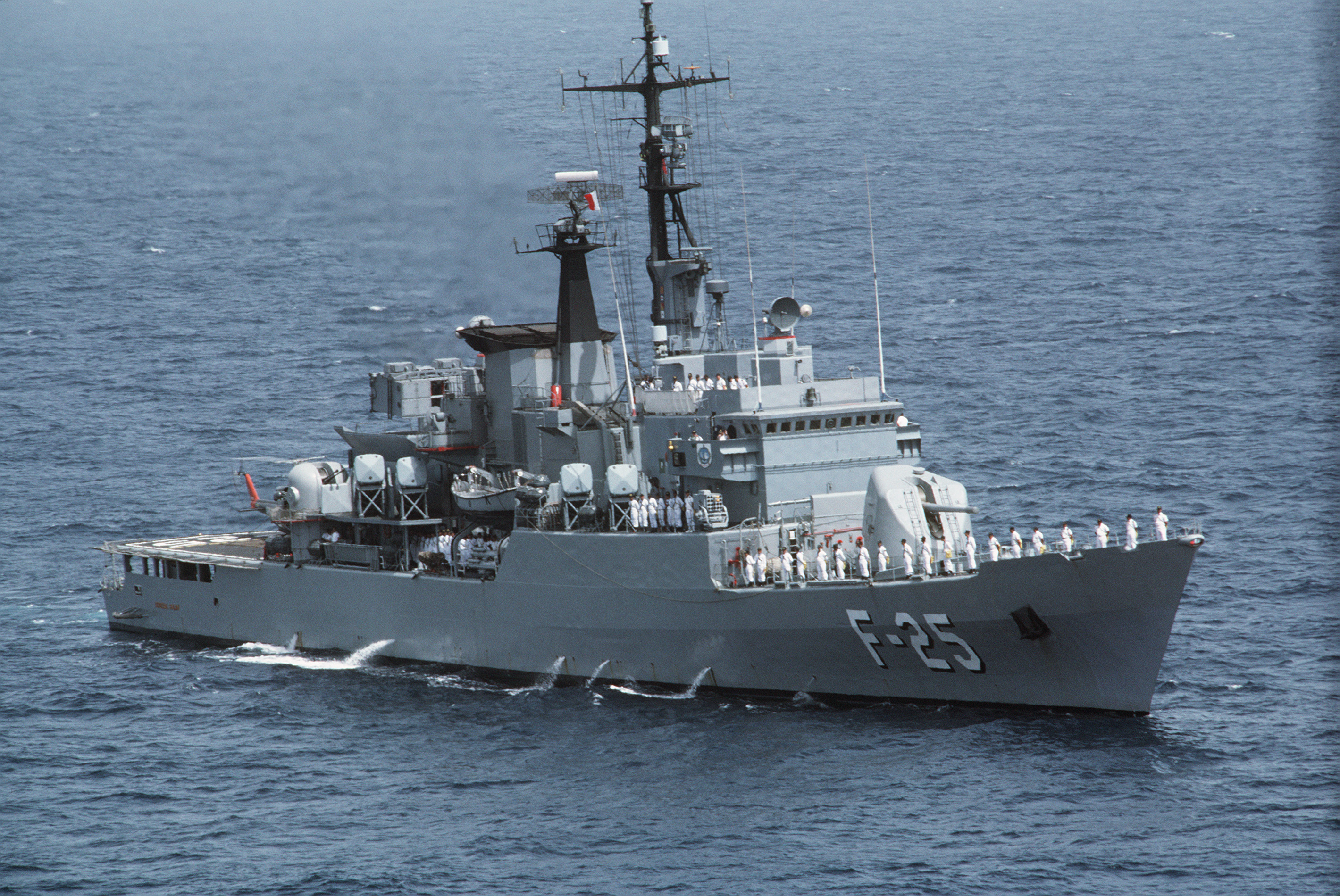 A starboard bow view of the Venzuelan frigate GENERAL SALOM (F 25) underway. The vessel is transporting Venezuelan officials.